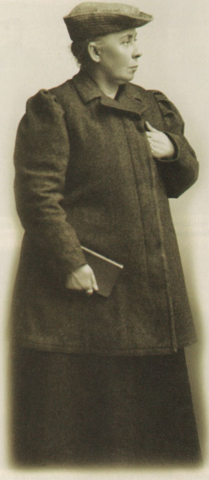 Kata Dalström, Swedish author and agitator